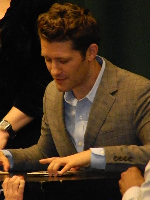 Matthew Morrison at CD release party, Tribeca Barnes & Noble, 5 June 2013.